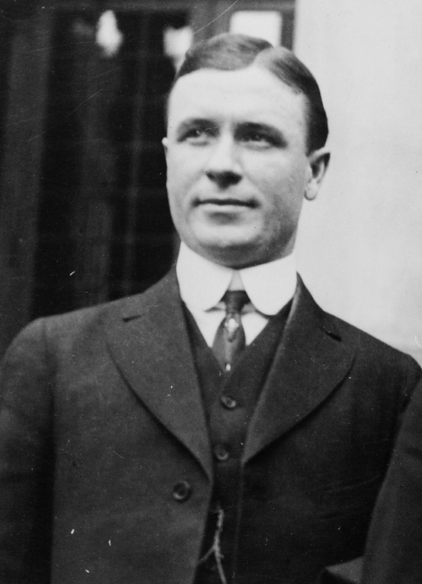 portrait of unionist Frank Hayes. Cropped from original to single out Hayes to illustrate his Wiki article.